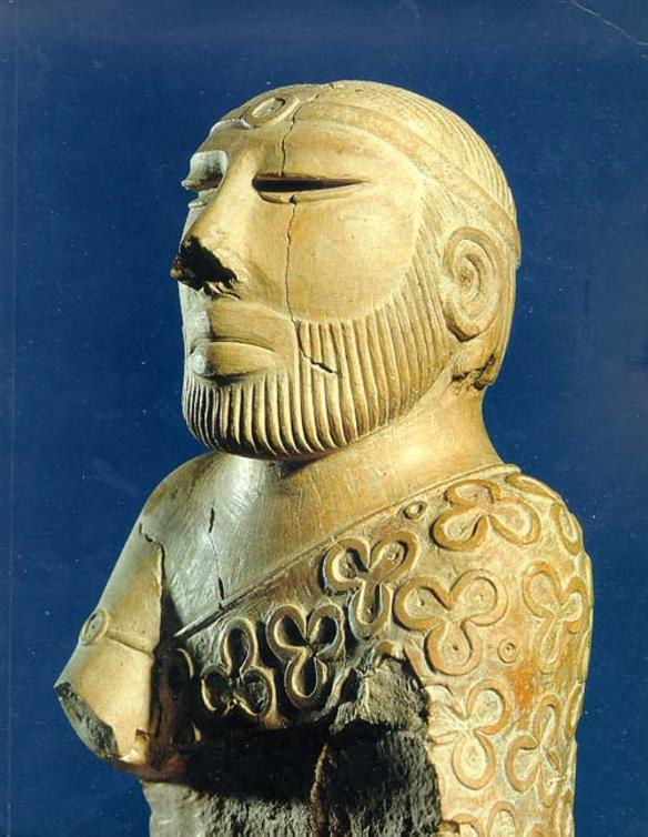 Indus Priest/King Statue. The statue is 17.5 cm high and carved from steatite a.k.a. soapstone. It was found in Mohenjo-daro in 1927. It is on display in the National Museum, Karachi, Pakistan.